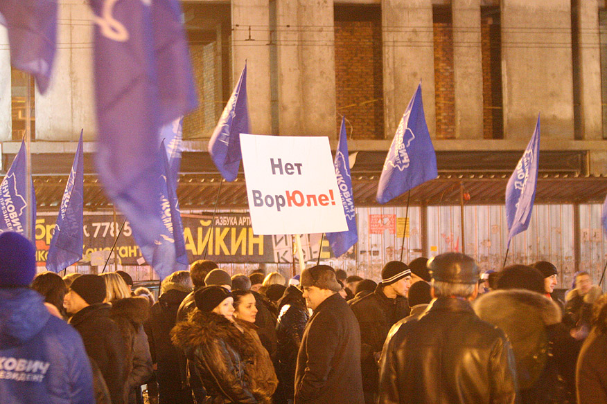 The crowd before the start of the Yanukovic for President rally in Dnipropetrovsk, Karla Marksa Prospect. Note the anti-Yulia Tymoshenko plackard saying 'No to ThiefYulia'